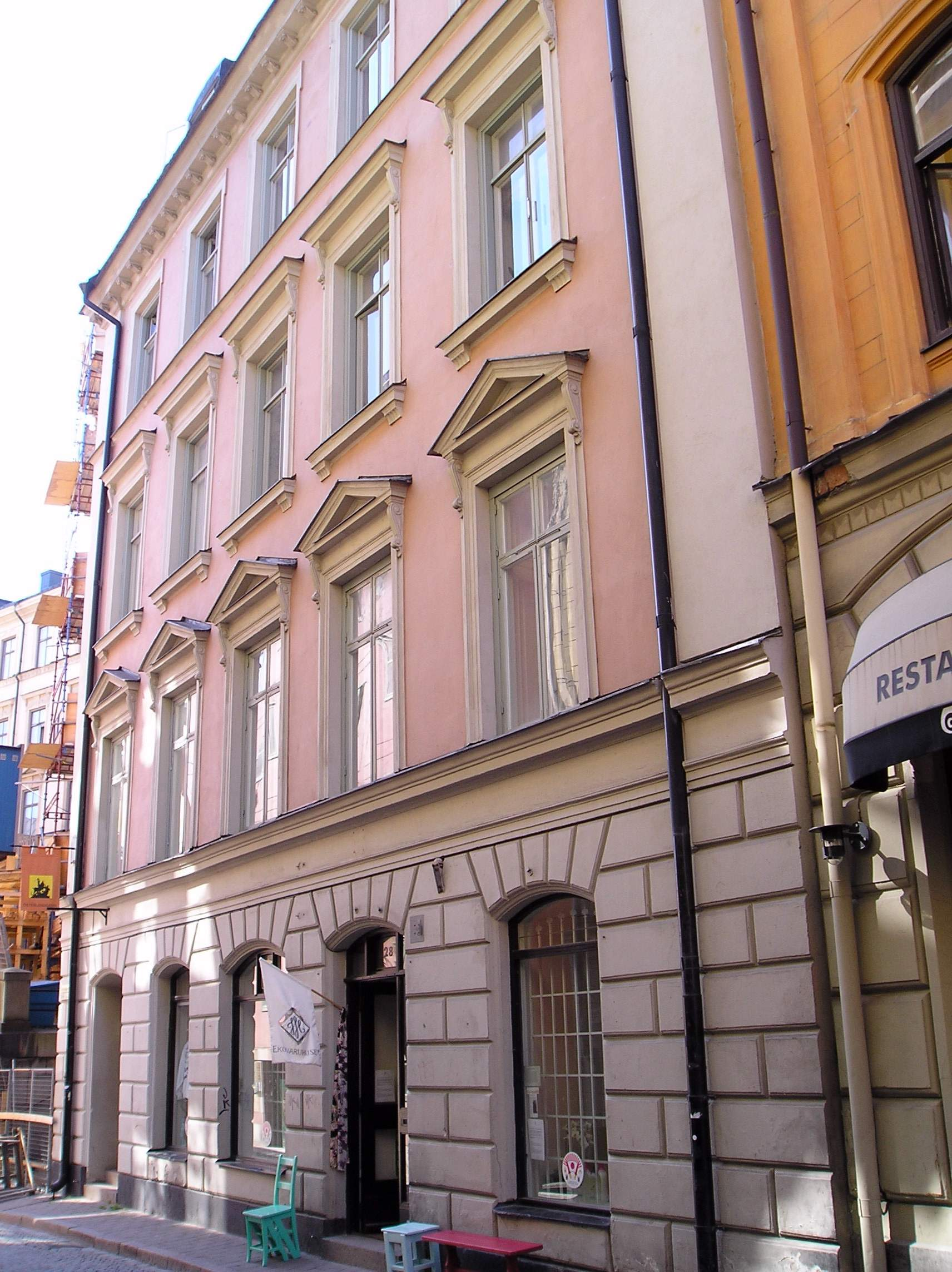 Foto: Kenneth Jademo